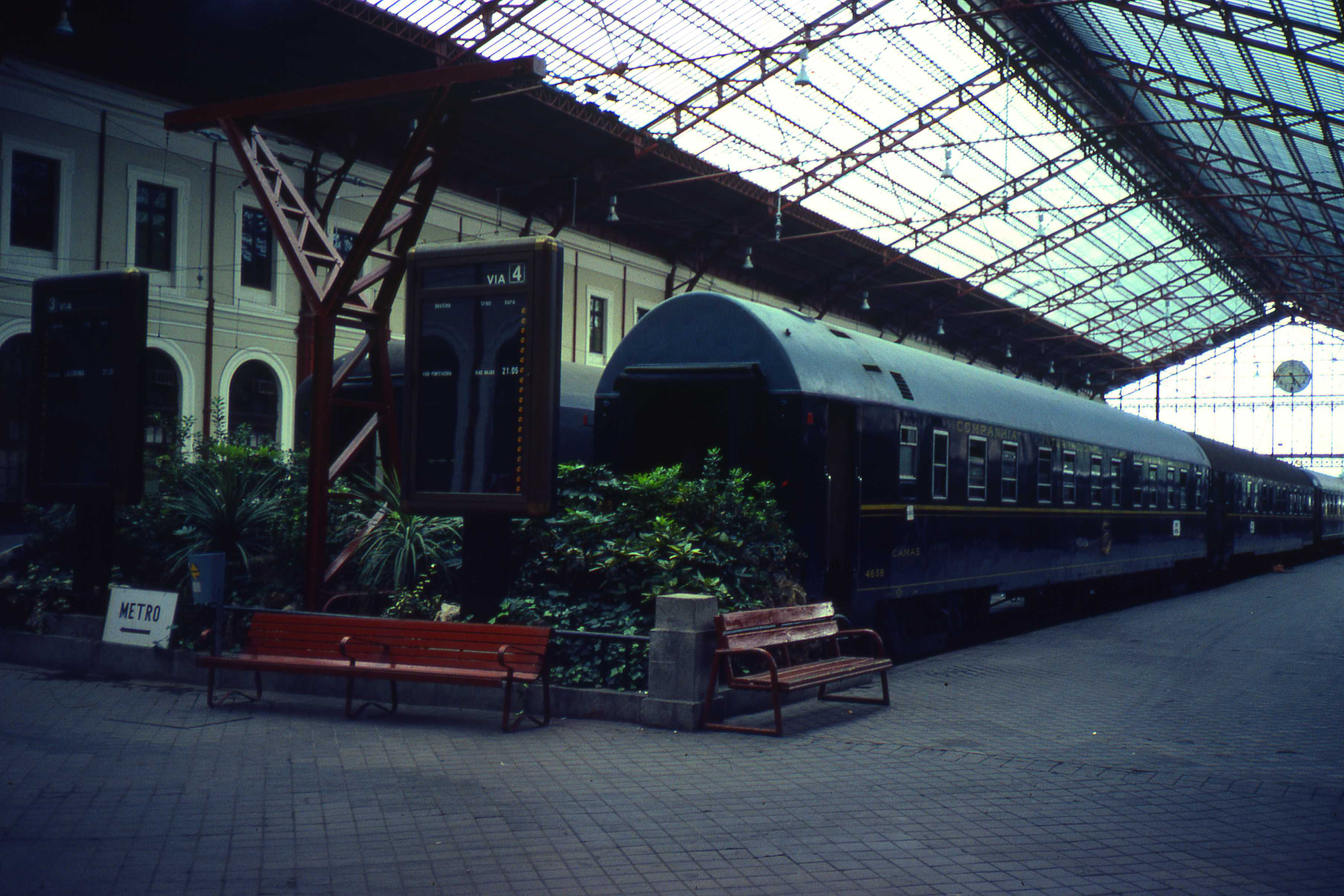 Sleepingcar train in station Principe Pío in Madrid in 1981